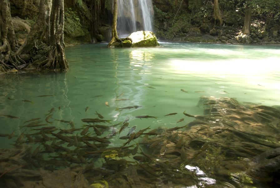 Garra Rufa в третьем каскаде водопада Эраван (Garra Rufa fish in a pool of 3th cascade)